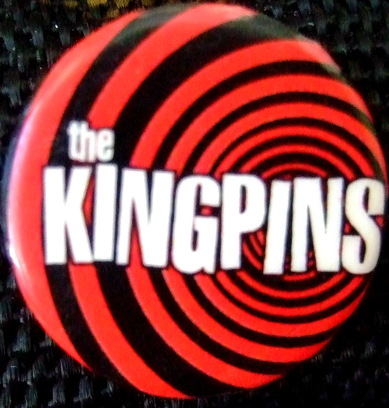 A photo of an official one-inch merchandise pin of the Montreal ska band "The Kingpins", bought circa 2004. The same logo was used for other sweaters and t-shirts, etc. I, the author of this work, release it into the public domain.